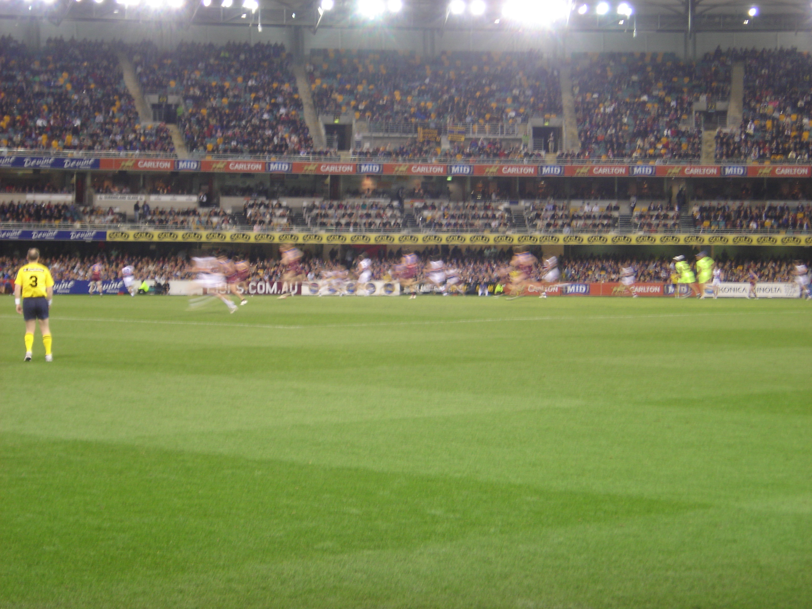 View of the Stanley Street End at the Gabba during an AFL match.